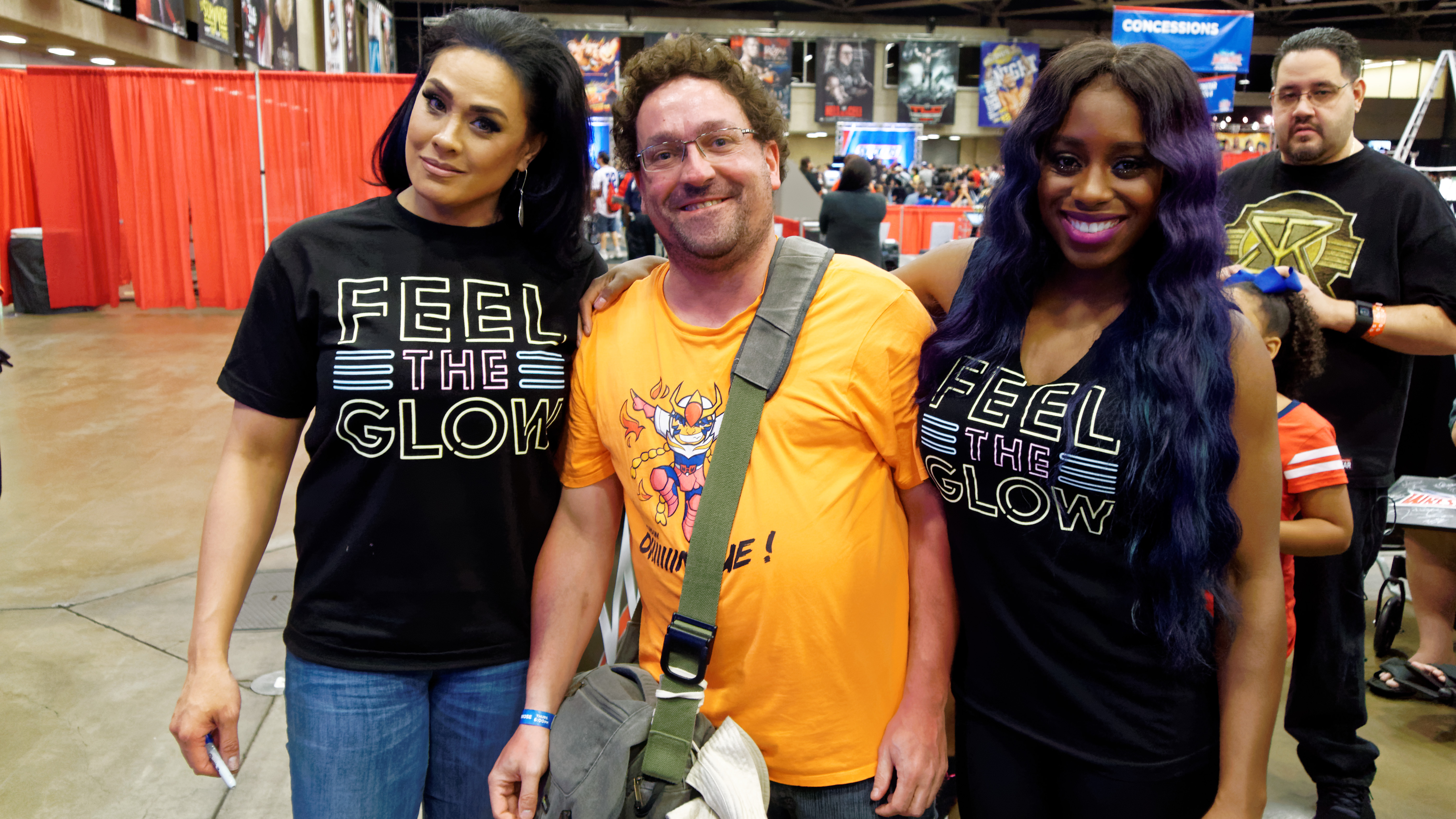 WrestleMania Axxess takes over the Kay Bailey Hutchison Convention Center in Dallas March 31-April 3. Featuring Superstar and Diva meet-and-greets, memorabilia displays and much more, WrestleMania Axxess is one event WWE fans of all ages will want to be part of. Don't miss out!